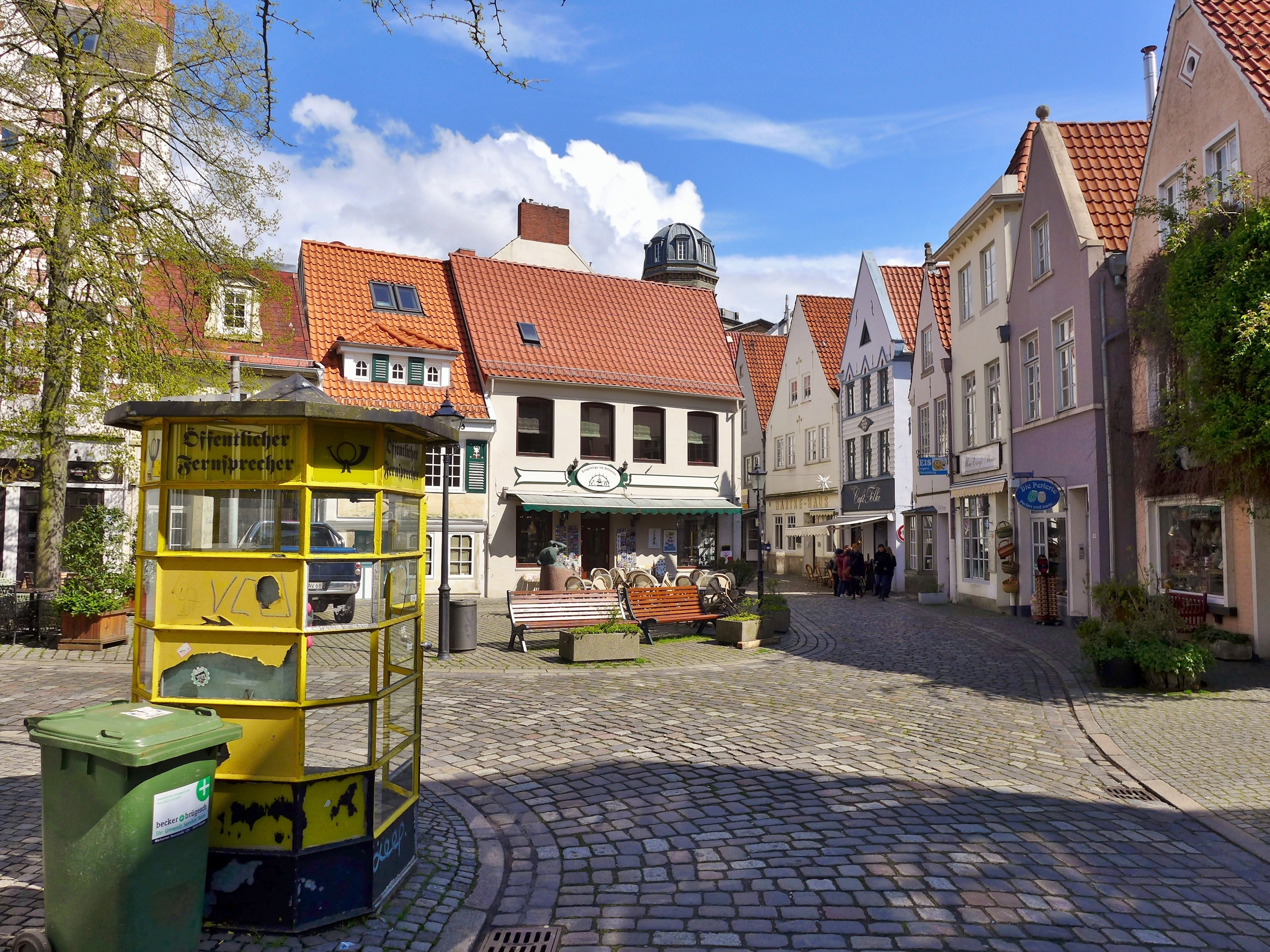 View of Stavendamm, in the Schnoor neighbourhood, Bremen, Germany